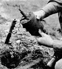 German WWII S-Mine or Boucing Betty